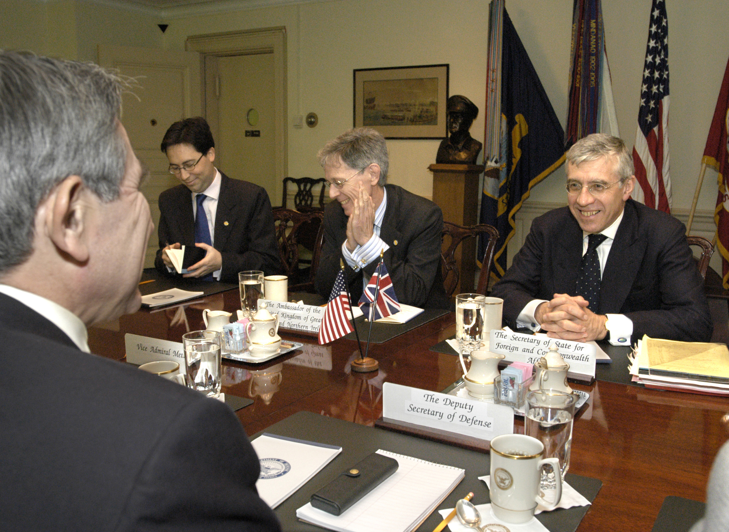 Secretary of State for Foreign and Commonwealth Affairs Jack Straw (right), of the United Kingdom, meets with Deputy Secretary of Defence Paul Wolfowitz (foreground) in the Pentagon on 13 November 2003. Under discussion is a range of issues relating to the international coalition's efforts to bring stability and democracy to Iraq. Also participating in the meeting are Ambassador Sir David Manning (centre) and Jonathan Sinclair, the note taker. (Released)